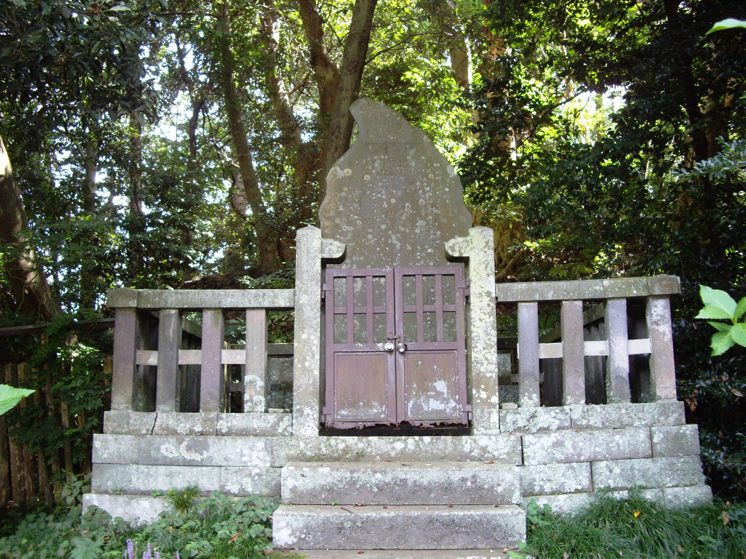 The Tomb of Kazan'in Morokata, in Narita, Chiba Prefecture, Japan